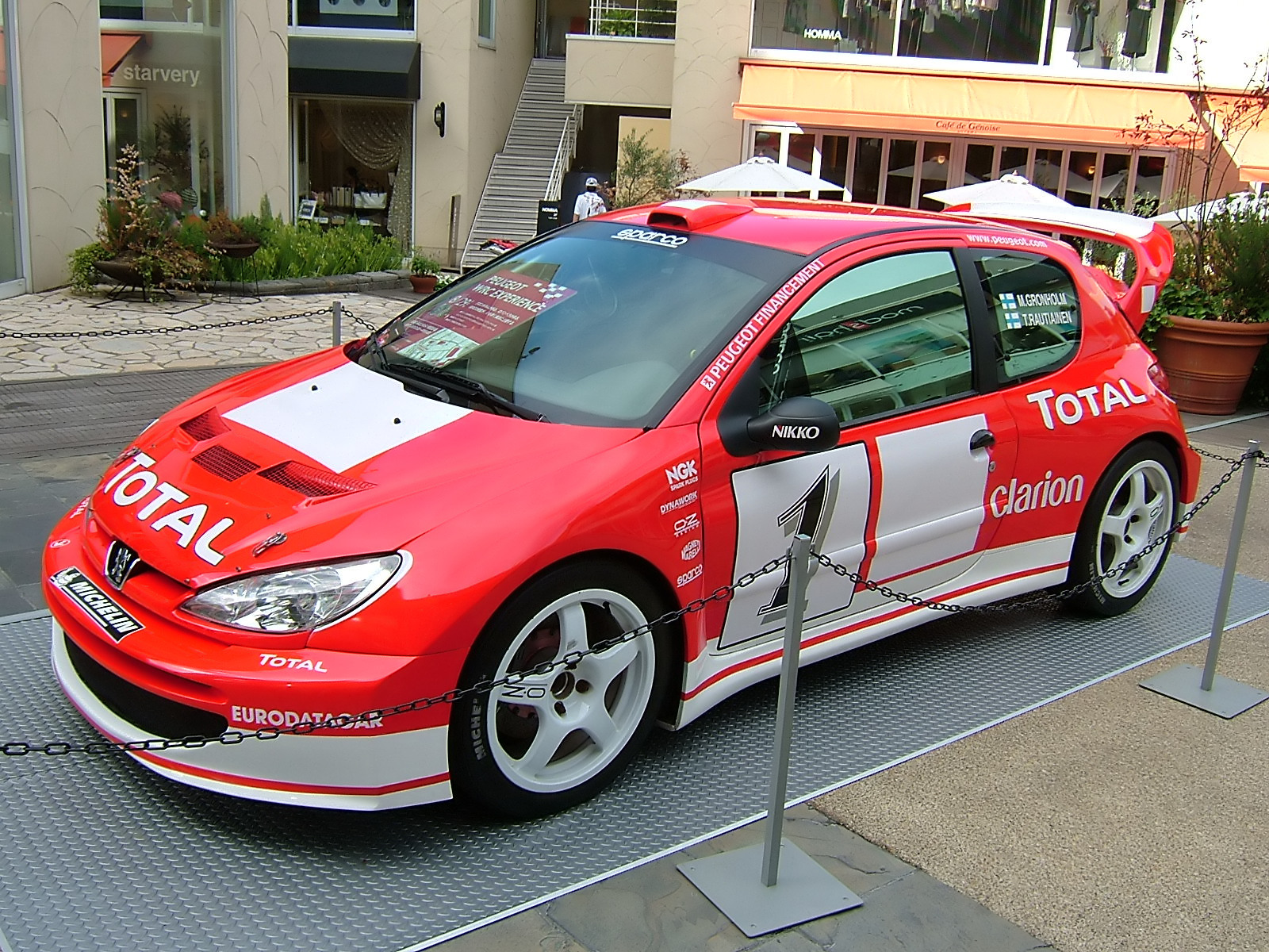 Peugeot 206 WRC on display in Tokyo, Japan.